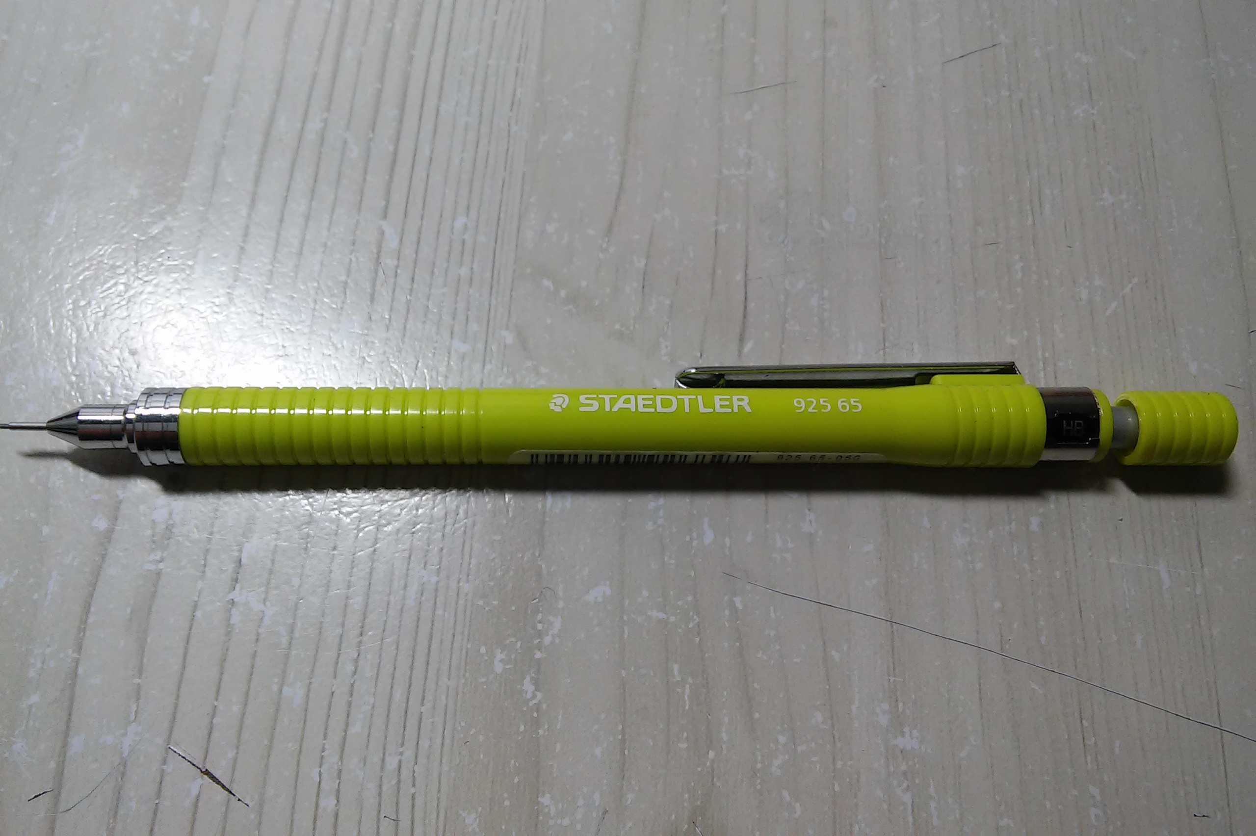 STAEDTLER 925 65